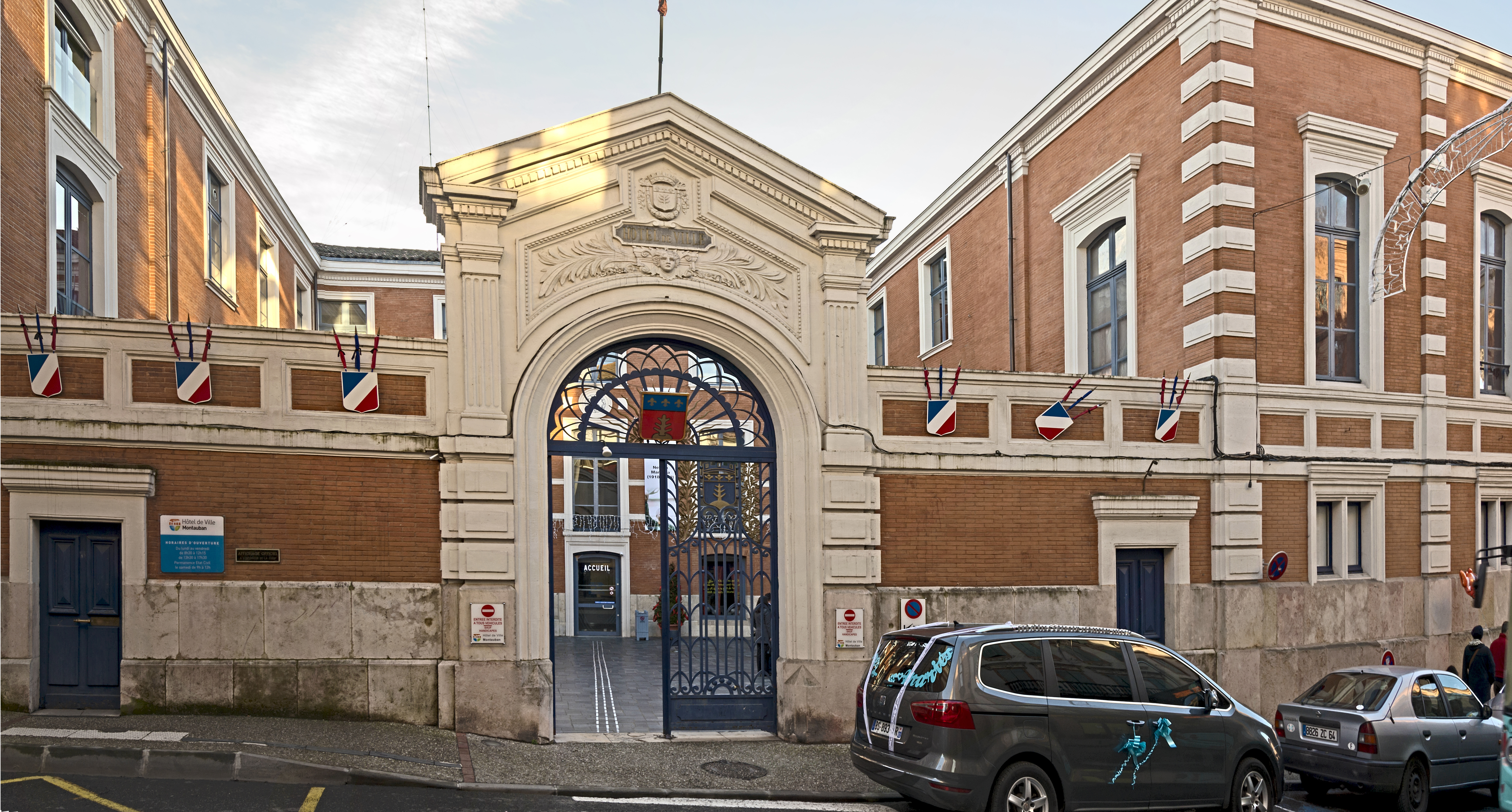 Hôtel d'Alies – Town hall of Montauban.